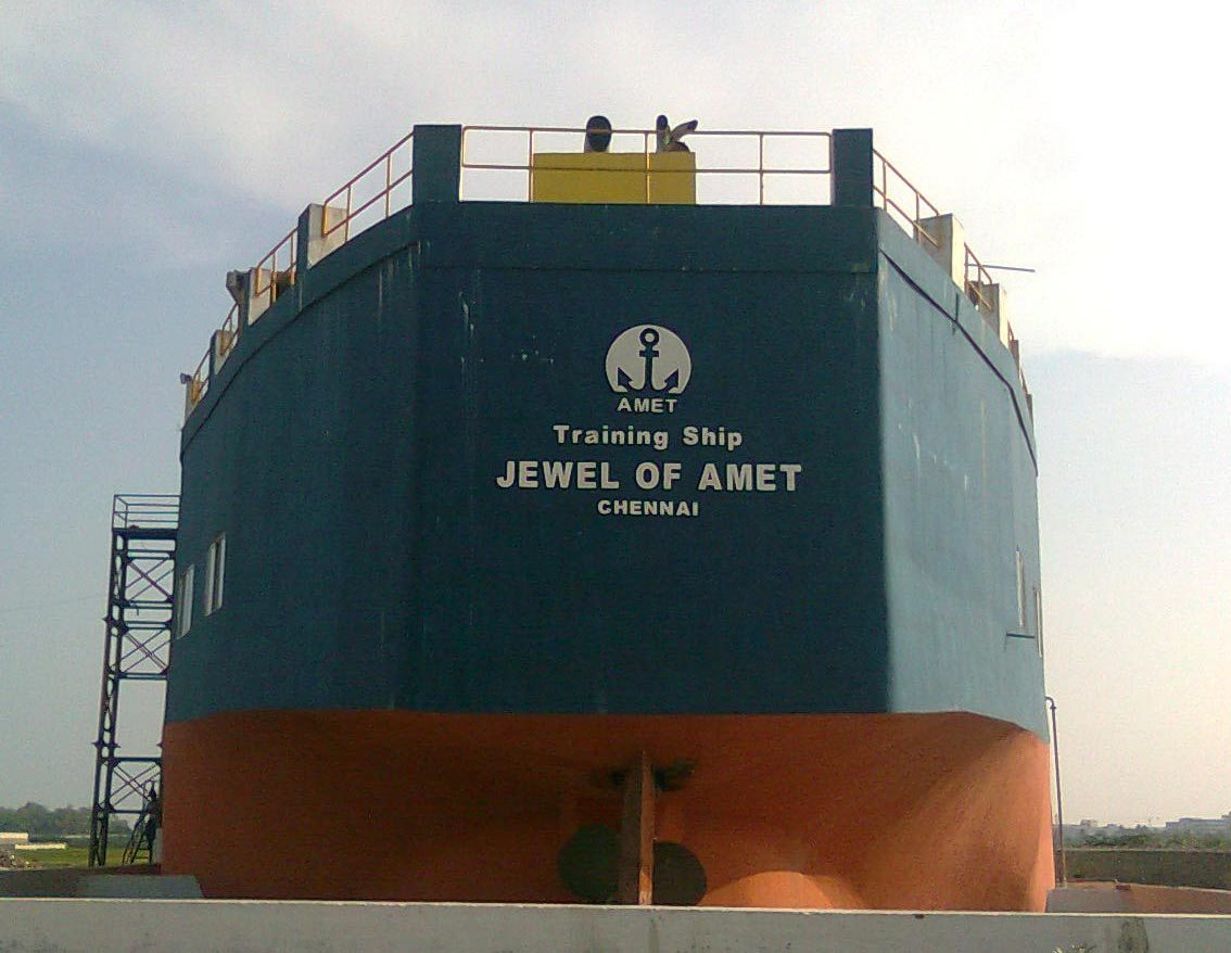 JEWEL OF AMET Ship-in-campus Commissioned 10th of August 2007